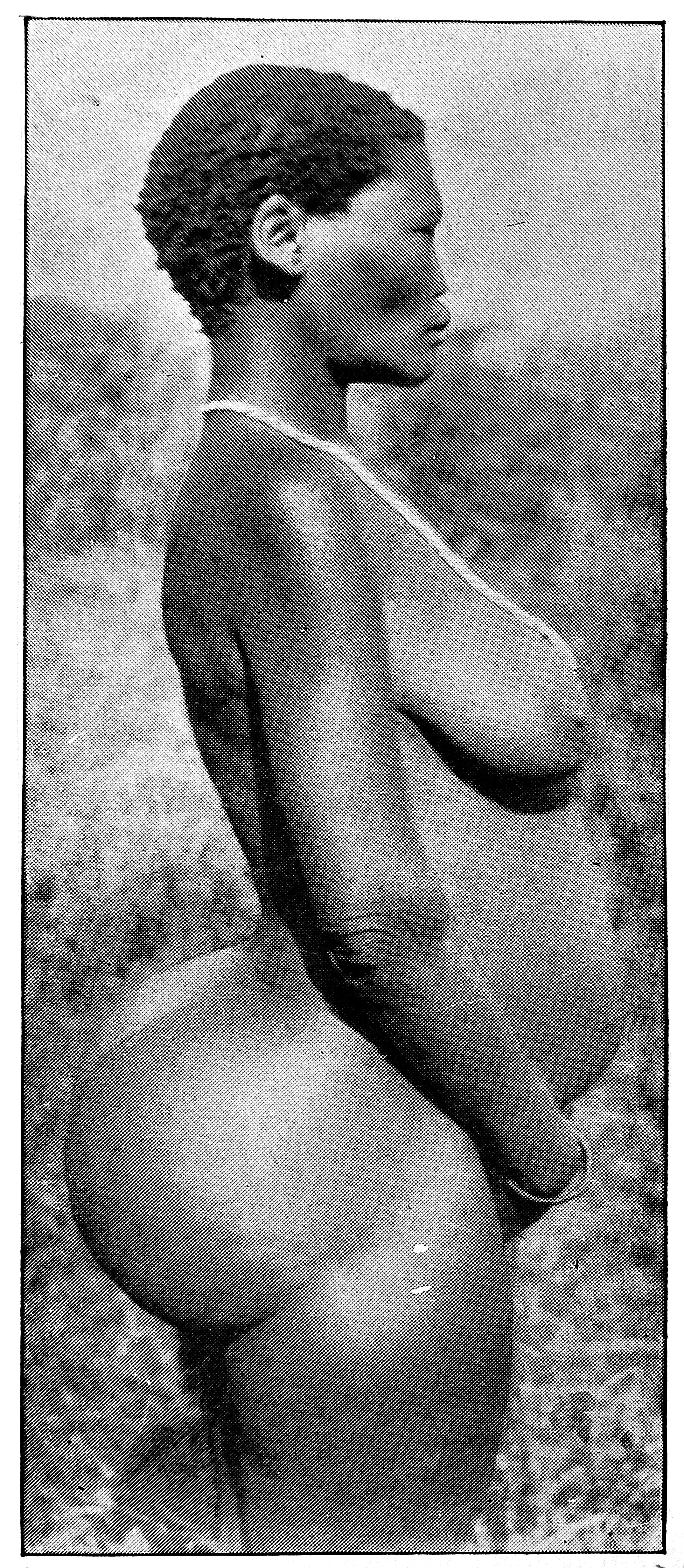 A female Hottentot, with steatopygy, which results in a protuberance of the buttocks due to an abnormal accumulation of fat Wellcome Images Keywords: Anatomy; Proportion